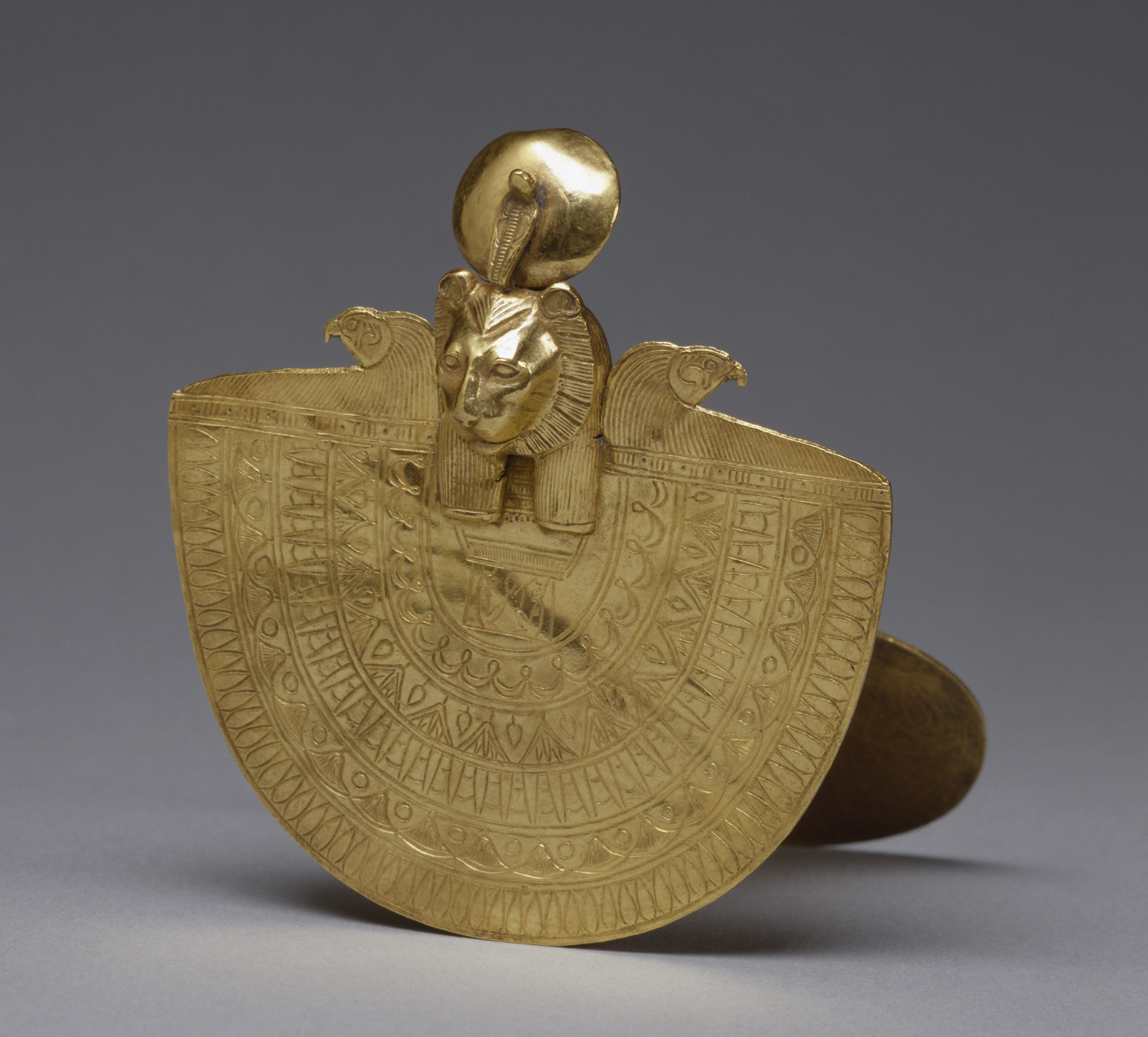 The collars worn by both Egyptian men and women were composed of two main parts: in front, a broad collar (called "wesekh") decorated with floral elements, and a v-shaped counterpoise (called "menat") falling behind the neck to balance the weight of the collar. Such a combination was not only used as decoration but also as a ritual instrument by holding the "menat" in the hand and rattling the beads of the collar. The three-dimensional depiction of "wesekh" and "menat" combined with a divine head became an important symbol. The head of a feline goddess atop this model collar indicates that it is intended as a personification of her powers, conveying in its decoration the ability of the lioness both to protect and to nourish the king. Her dual nature is evoked by her stern and watchful face on the front side, and by her representation as a mother suckling a young prince on the reverse. This precious object may have been produced for someone of the royal family.